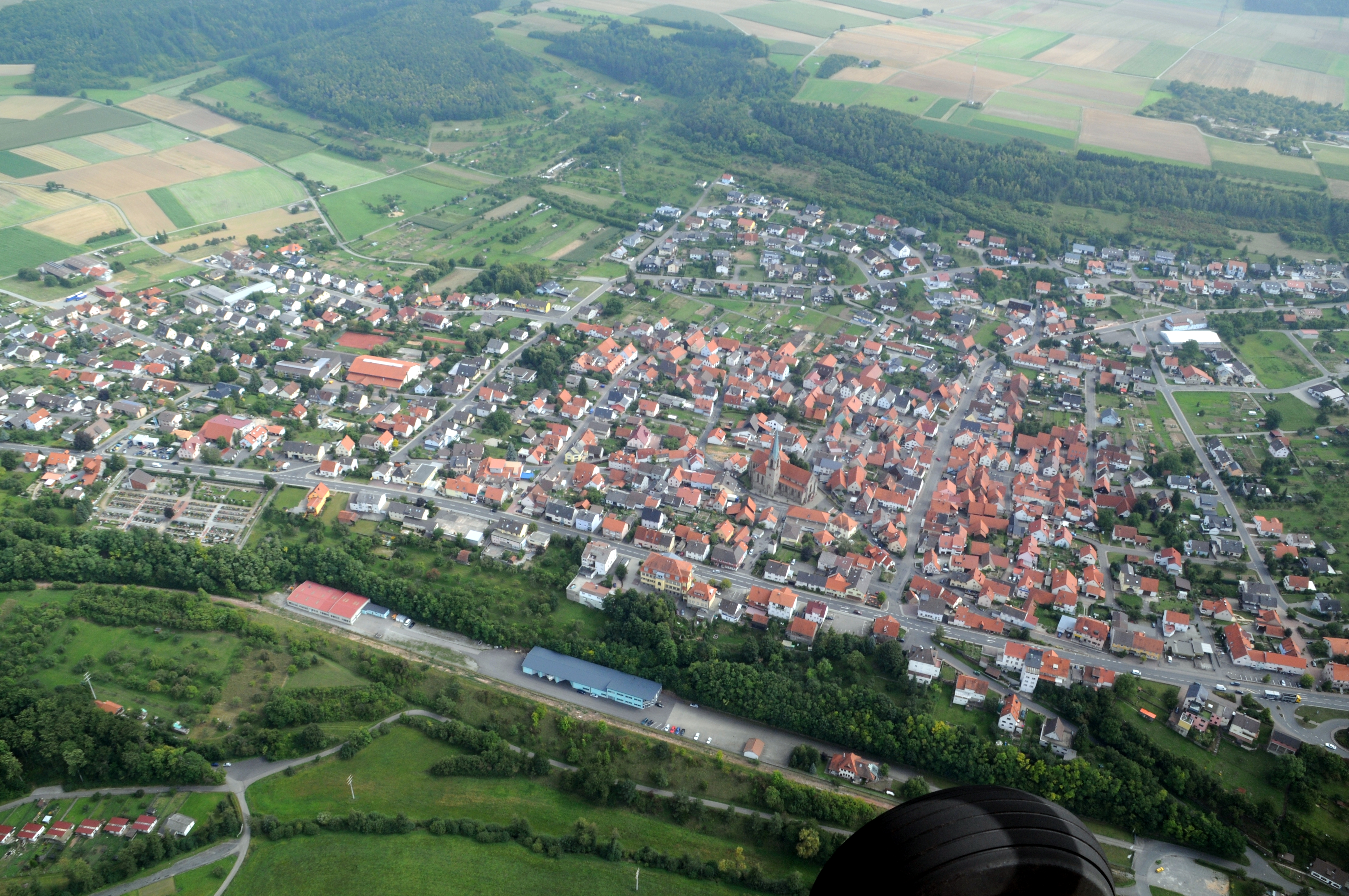 Höpfingen, Baden-Württemberg, Germany, aerial photograph